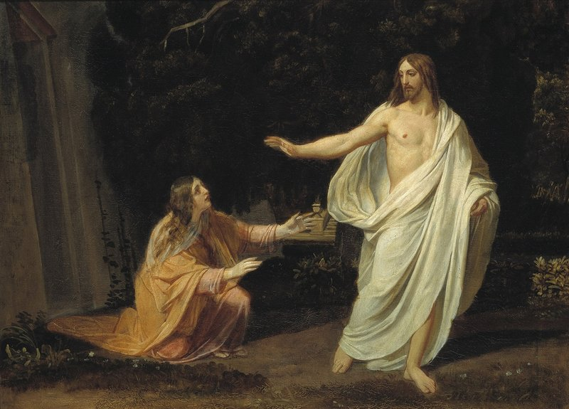 The Appearance of Christ to Mary Magdalene after the Resurrection (study), (painting by Alexander Ivanov, between 1833 and 1835)